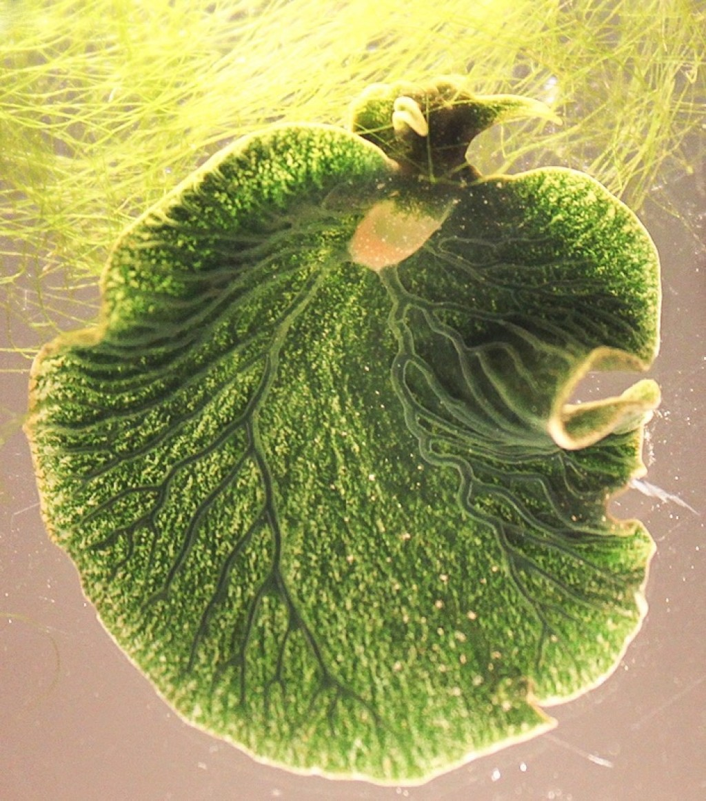 Anatomy of the sacoglossan mollusc Elysia chlorotica. Sea slug consuming its obligate algal food Vaucheria litorea. Small, punctate green circles are the plastids located within the extensive digestive diverticula of the animal.